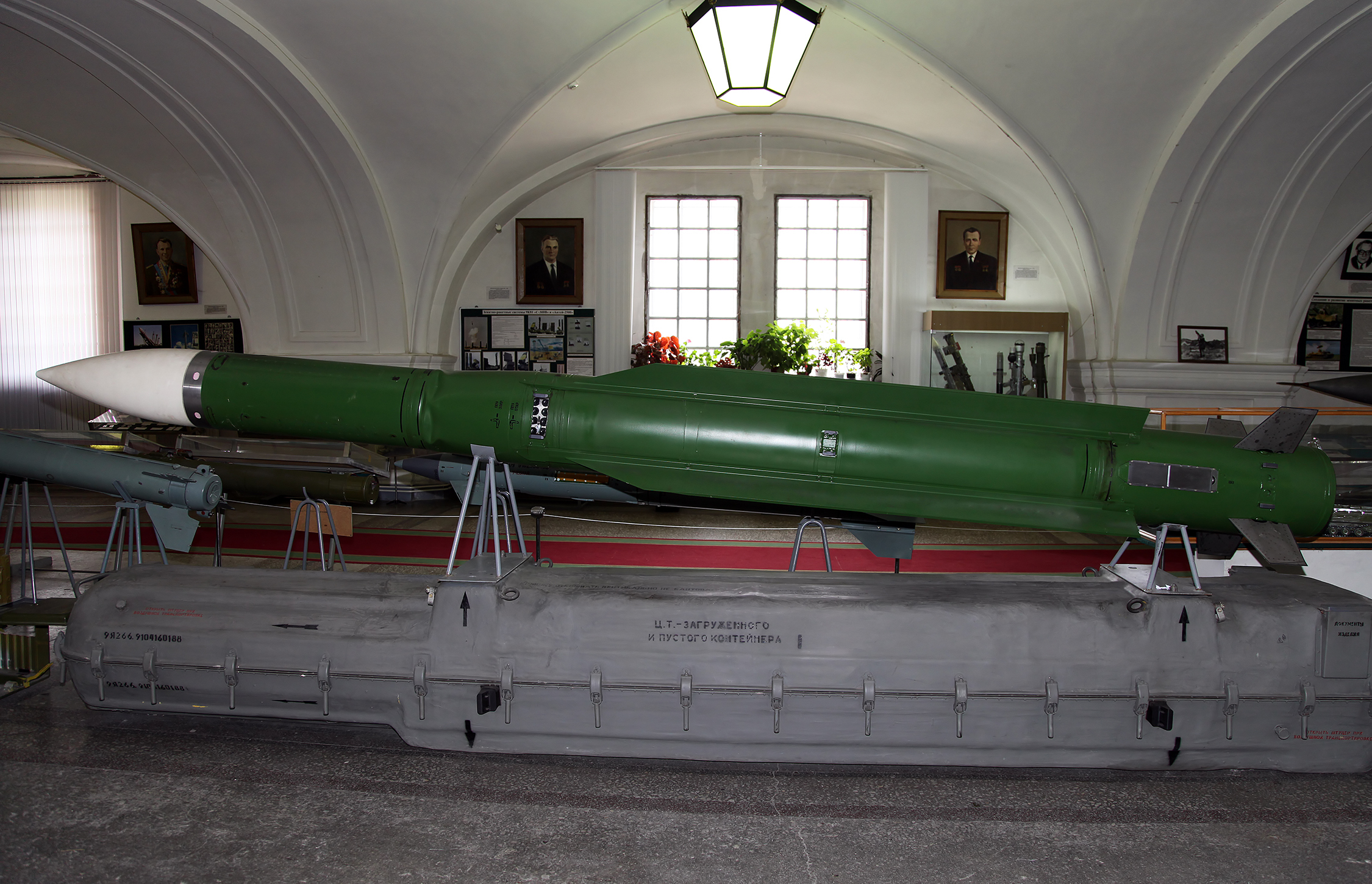 9M38 SAM for 9K37 Buk system